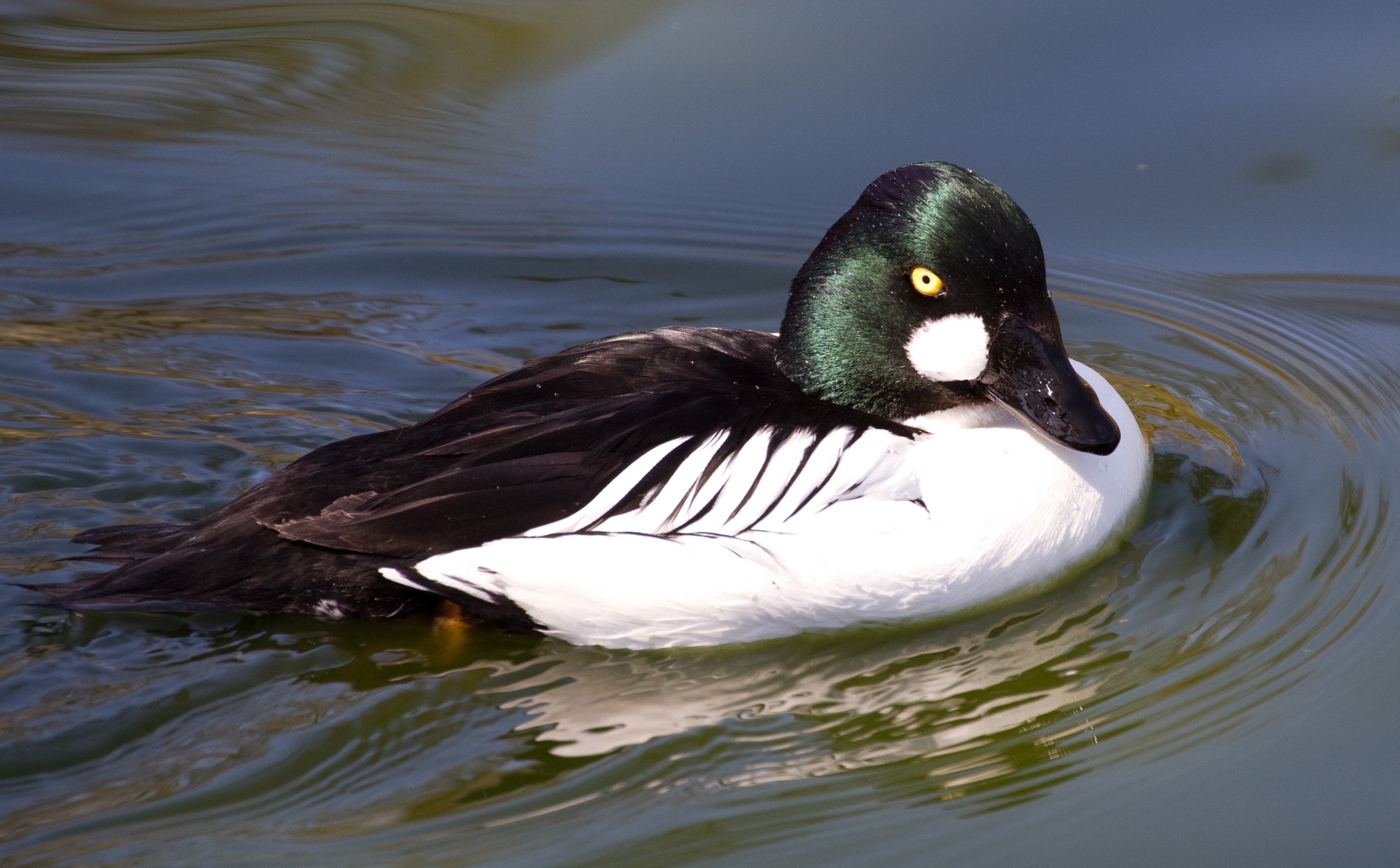 Goldeneye, male. Bradwell Grove, England.